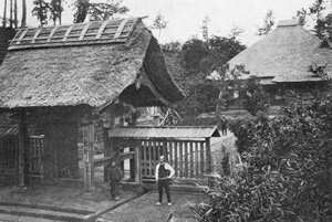 The Kanagawa Temple in which Francis Hall first resided when he came to Japan in 1859. Only known Hall Japan Photograph.